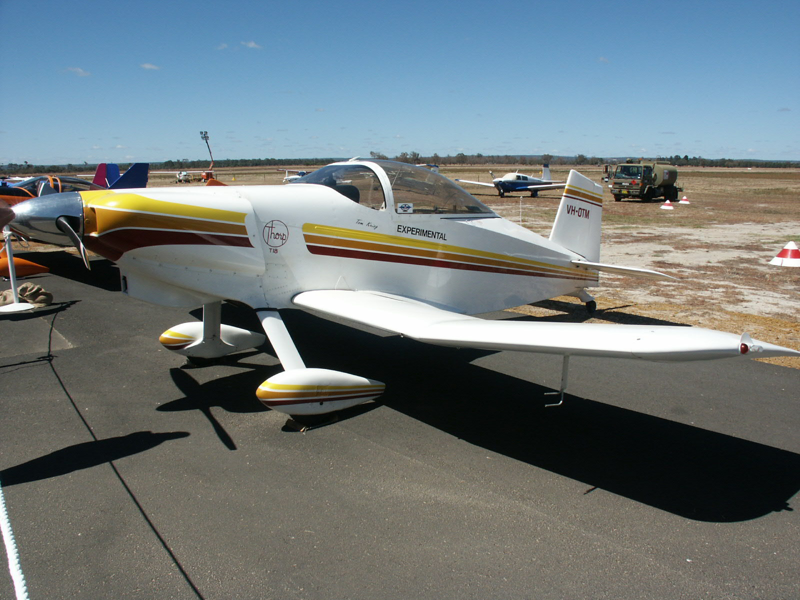 Thorp T-18 VH-OTM at Busselton, Western Australia.